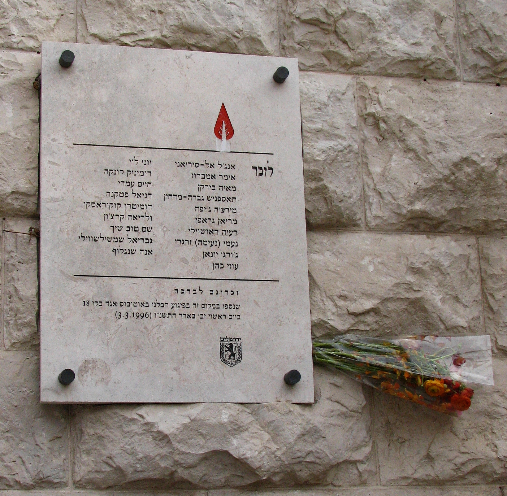 Plaque commemorating victims of No. 18 bus bombing on March 3, 1996, Jaffa Road, Jerusalem.